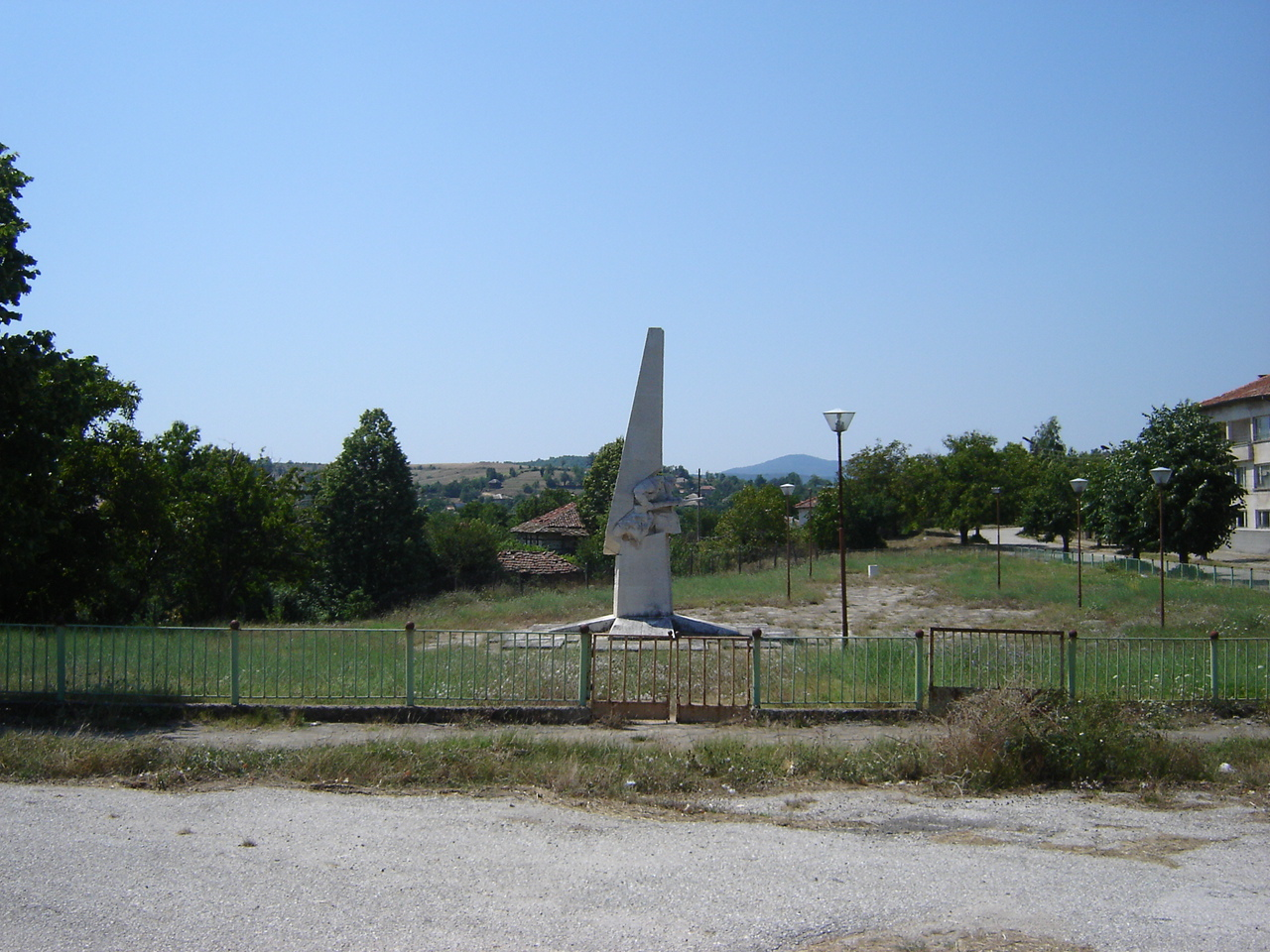 Author: Kiril Kapustin (Me) URL: License: CC - Summary Author: Kiril Kapustin (Me) URL: License: CC